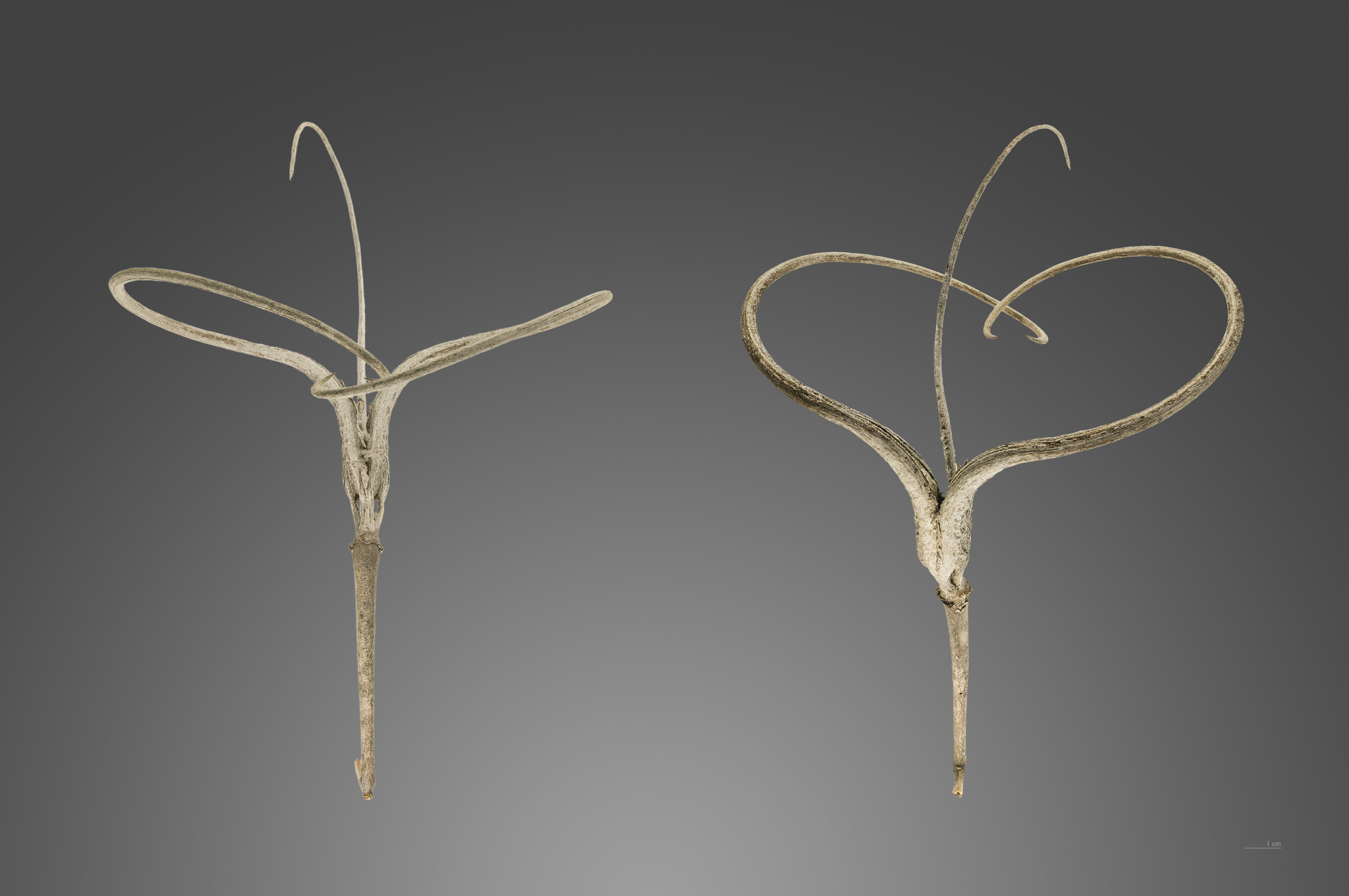 Capsules of Proboscidea althaeifolia. These capsules, 3 spikes, facilitate dispersal by clinging to animal fur. This is what we call the zoochory. Thus, the seeds can travel long distances and ensure the extension of the species. Two views of the same capsule.